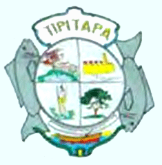 Seal of Tipitapa, Nicaragua